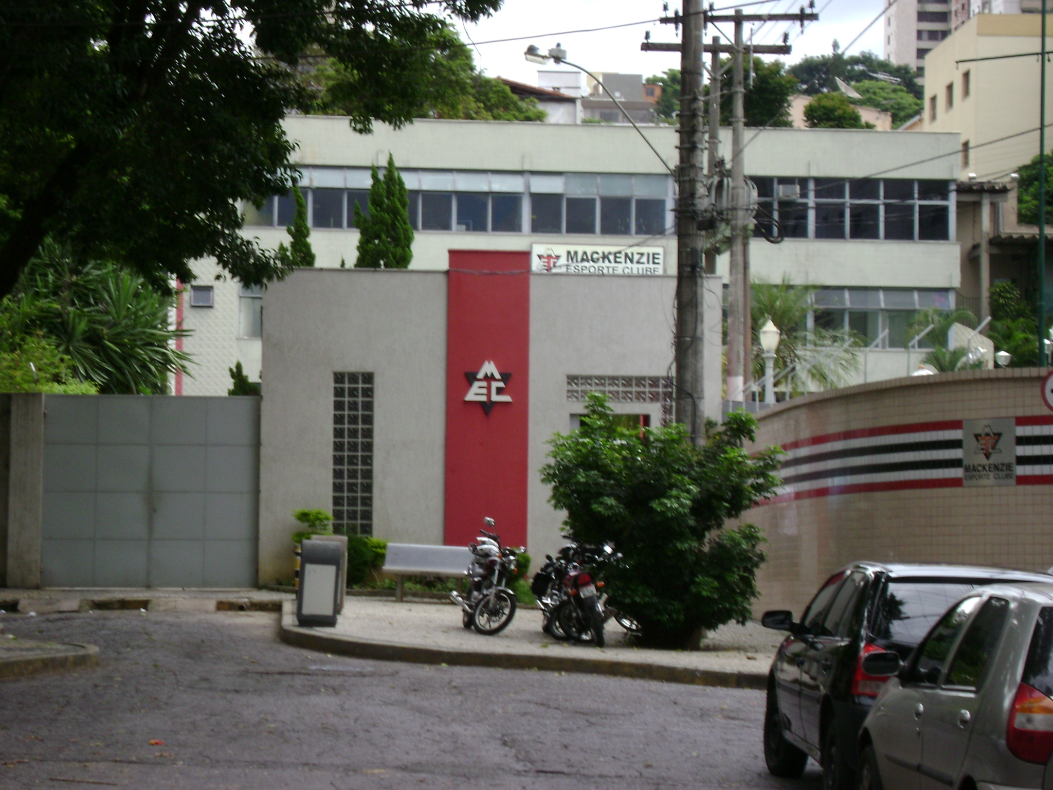 Entrada do Mackenzie Esporte Clube, no bairro São Pedro, Belo Horizonte.